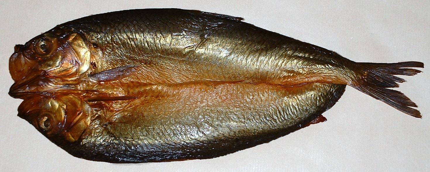 A kipper is a fish which has been split from tail to head, eviscerated, salted, and smoked. This species is a herring.